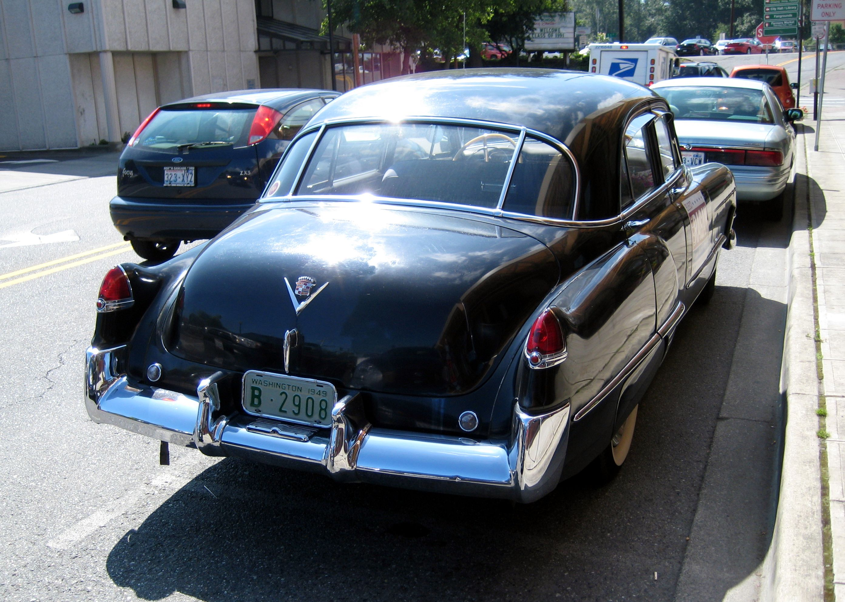 Election for mayor is coming up and this great Cadillac is hosting a sign for one of the candidates.